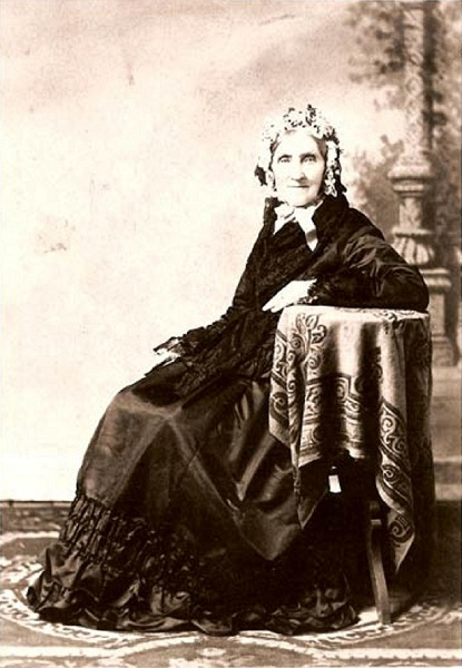 Photographed in Honolulu, Hawaii. Elizabeth McHutcheson Sinclair (1800 - 1892) and her family migrated to Hawaii where Eliza, as she was known, bought the island of Niihau for US$10,000.